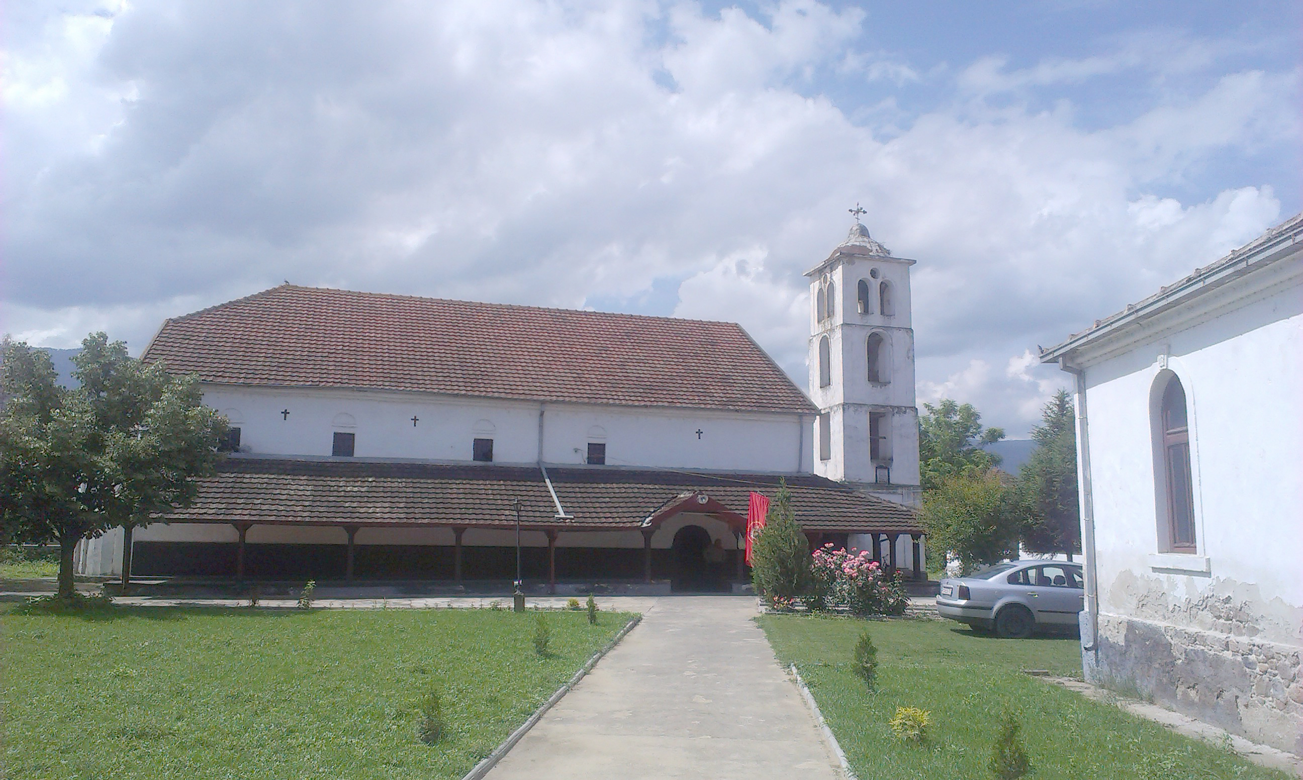 Church of St Constantine and Helena (Monospitovo)